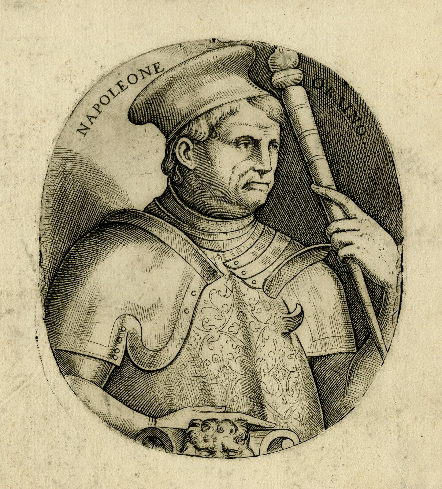 Portrait of Napoleone Orsini, half-length, facing front, wearing a campaigning hat and armour and holding a baton in his left hand; an oval composition; illustration from an unidentified publication Engraving